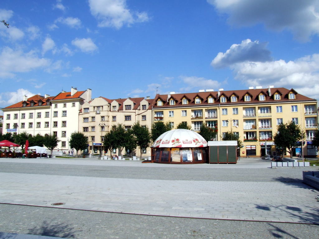 Eastern frontage of Market Square in Ostrowiec Świętokrzyski